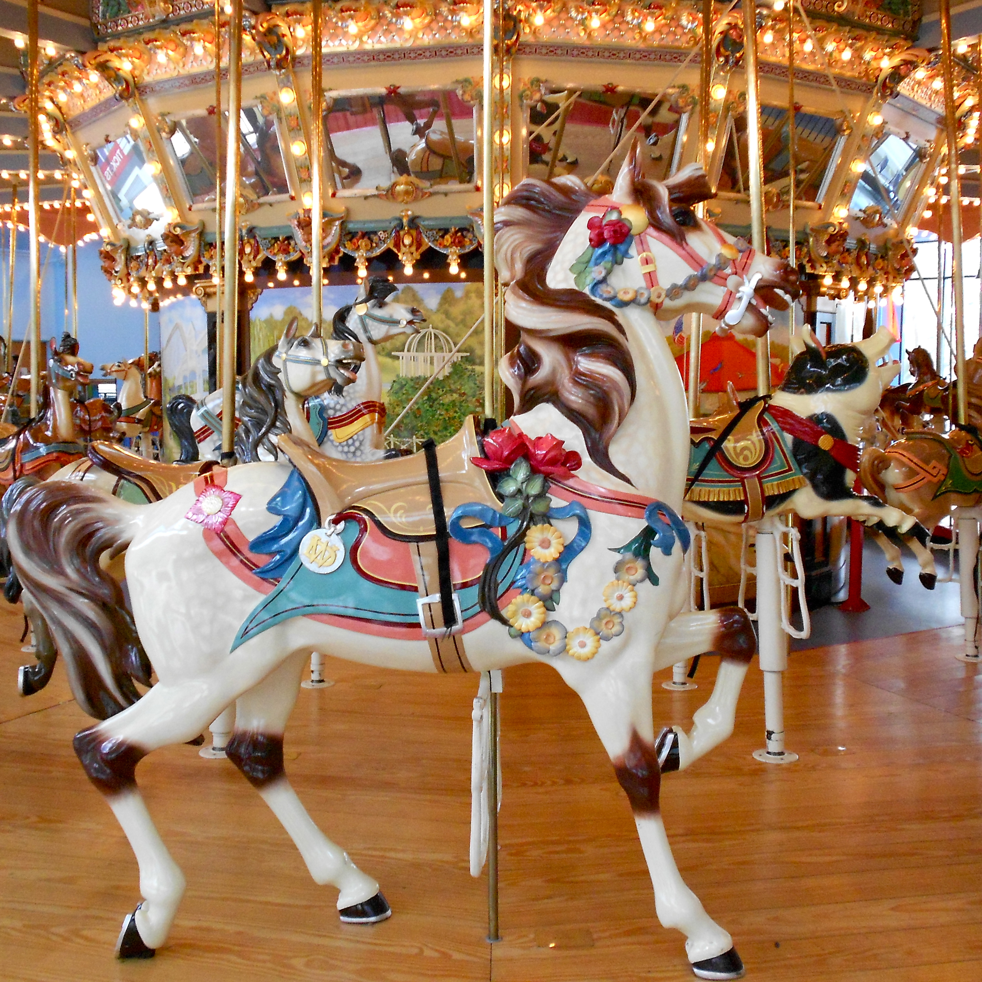 Lead horse figure on the Dentzel Carousel at Please Touch Museum in Philadelphia.